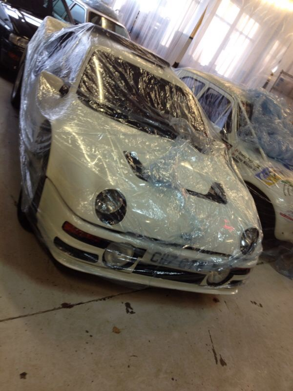 A preserved Ford RS200, with 125 miles on the odometer. Taken at the Ford a Heritage Museum in Dagenham, Essex.